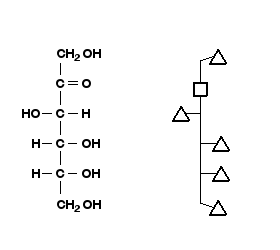 Fructose